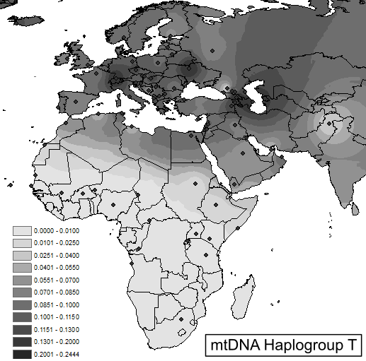 Frequency maps based on HVS-I data for mtDNA haplogroups T.